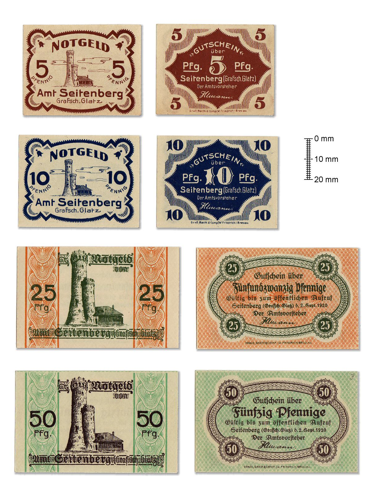 German necessity money (so-called notgeld) issued in Seitenberg (at present Stronie Śląskie, Lower Silesia, Poland) in 1920. In obverse picture of observation tower on Śnieżnik